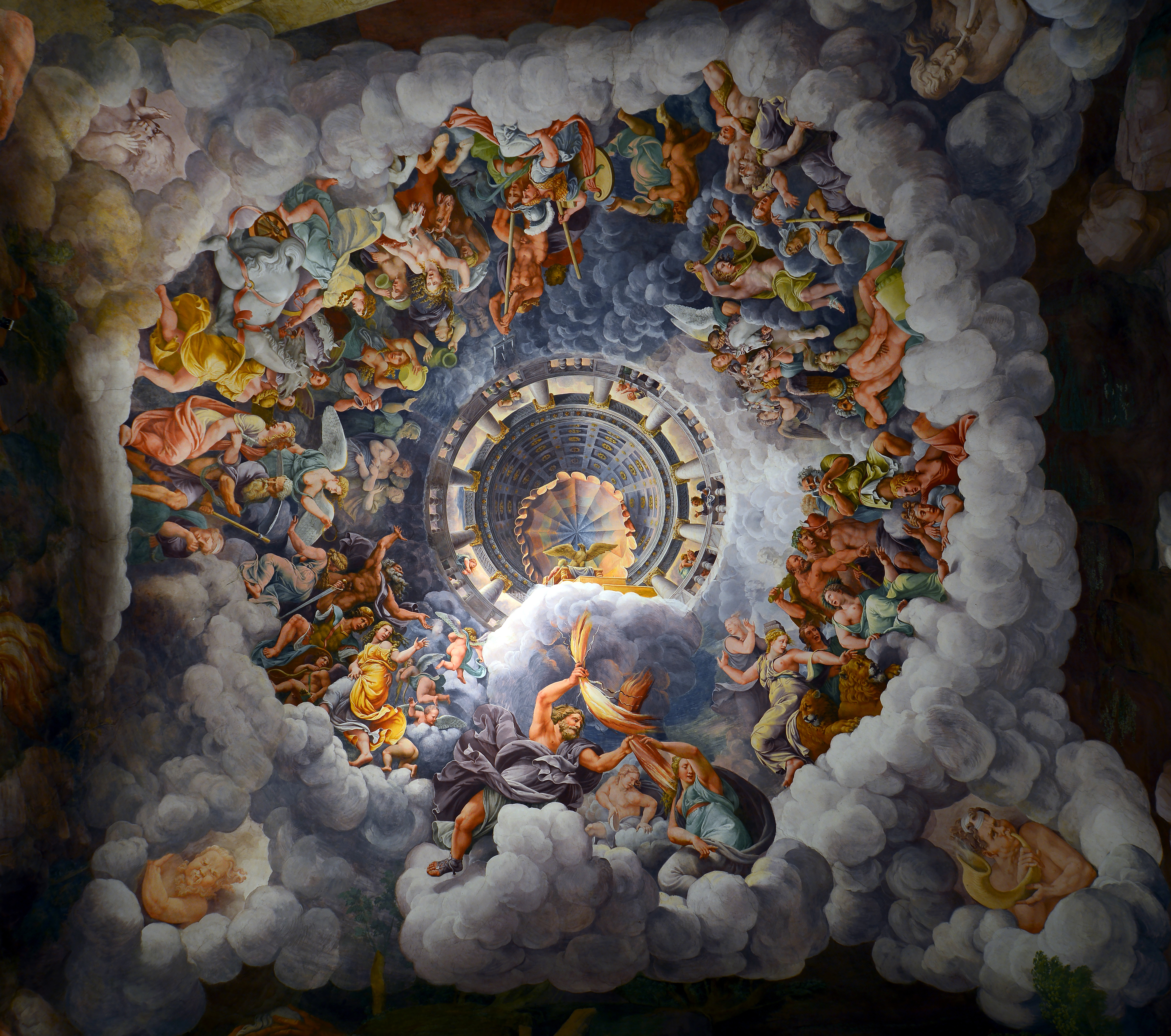 Ceiling of the Room of the Giants in Palazzo Te, Mantua